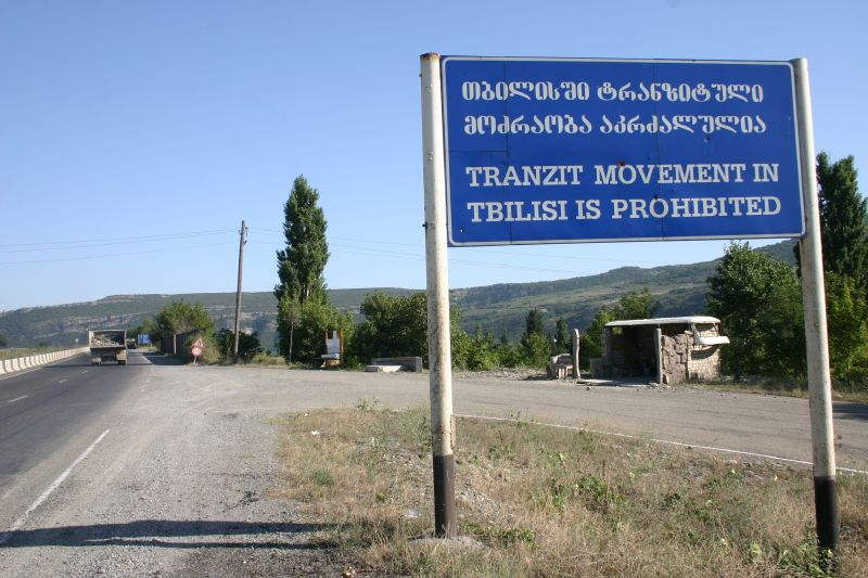 Tranzit movement in Tbilisi is prohibited!